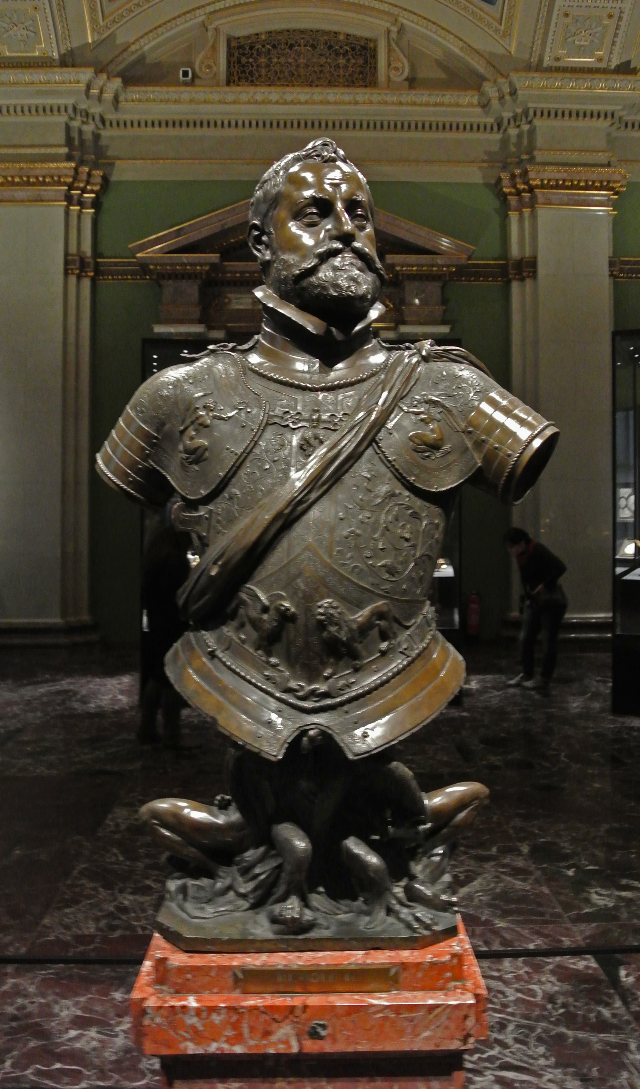 Bust of Holy Roman Emperor Rudolf II (1552–1612)